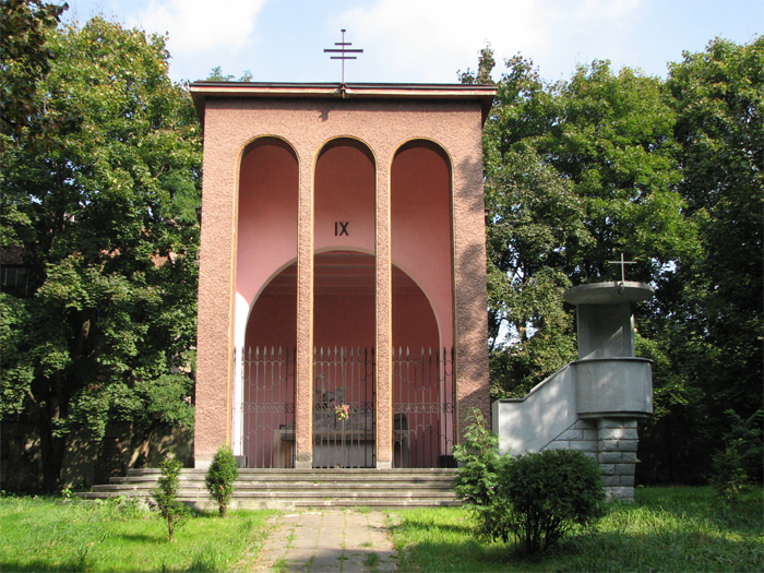 Calvary in Katowice Panewniki, Stations of the Cross - "Jesus falls the third time". Completed in 1952. Grating of 1983.